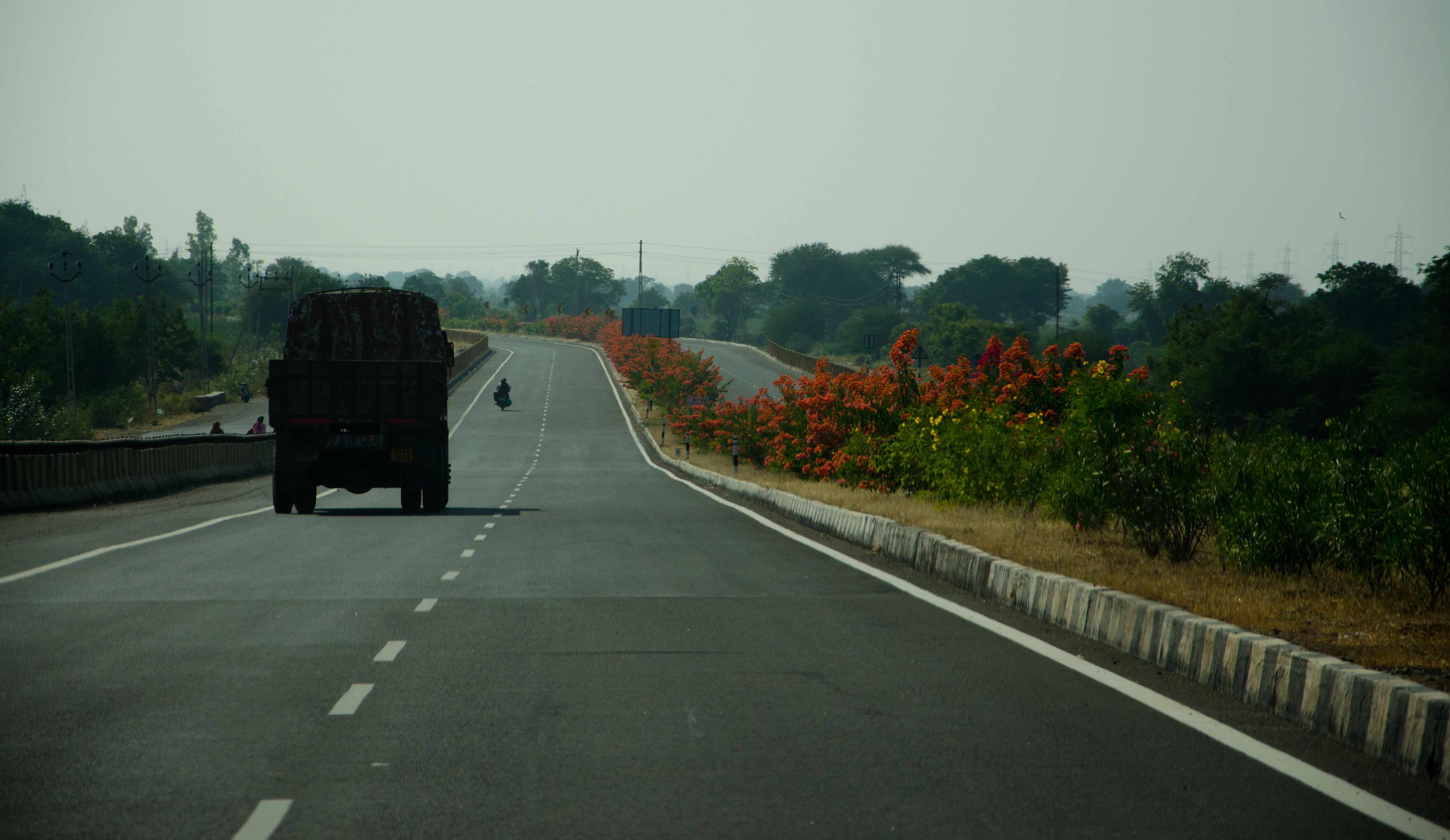 National Highway 8B (NH 8B) is a Highway within the state of Gujarat. NH 8B links Bamanbore (junction of NH 8A) to Porbandar and is 206 km (128 mi) long. Highways and Roads of India 2012